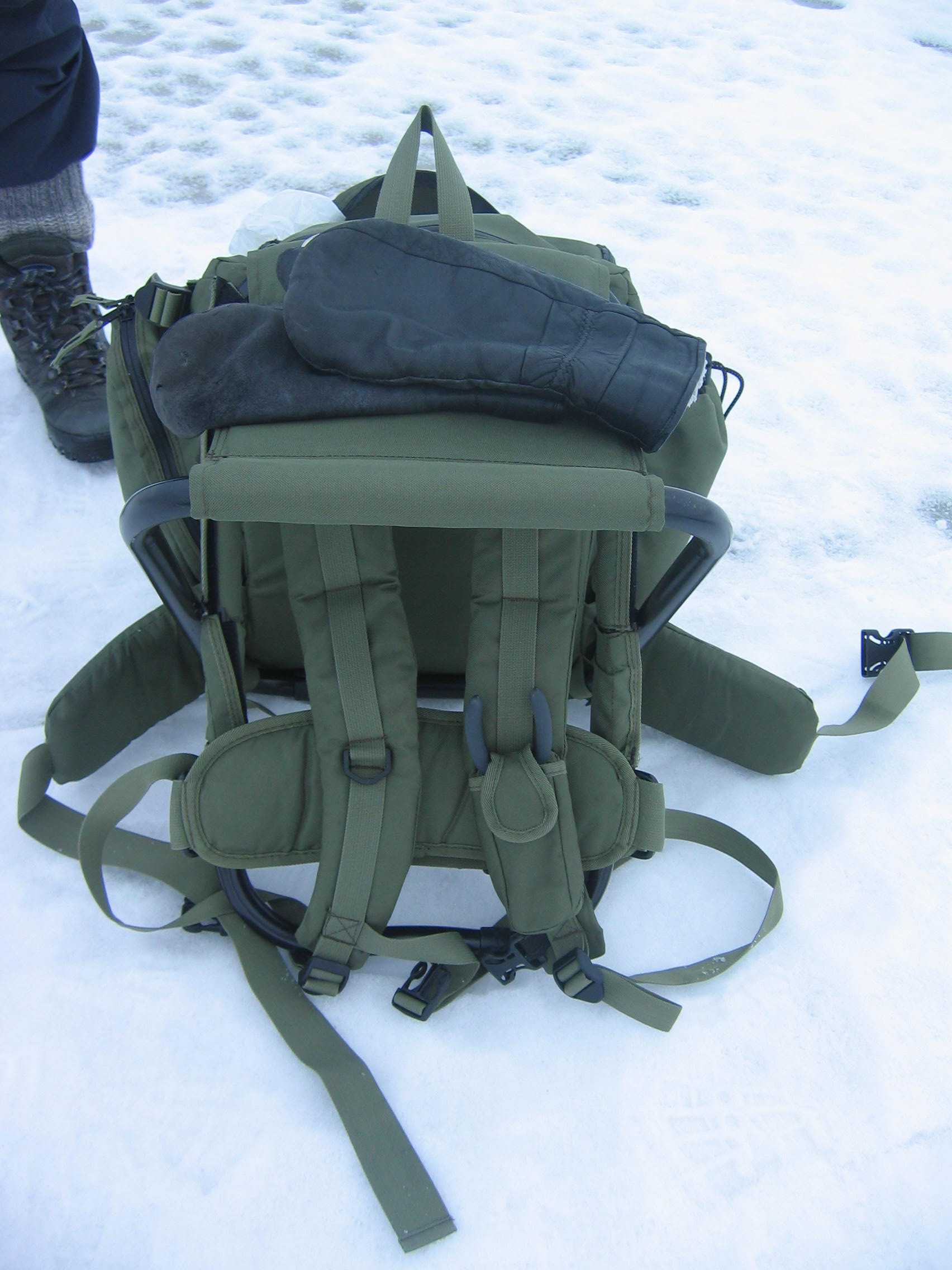 A jigger's backbag that can be used as a seat when fishing trough a hole in ice.